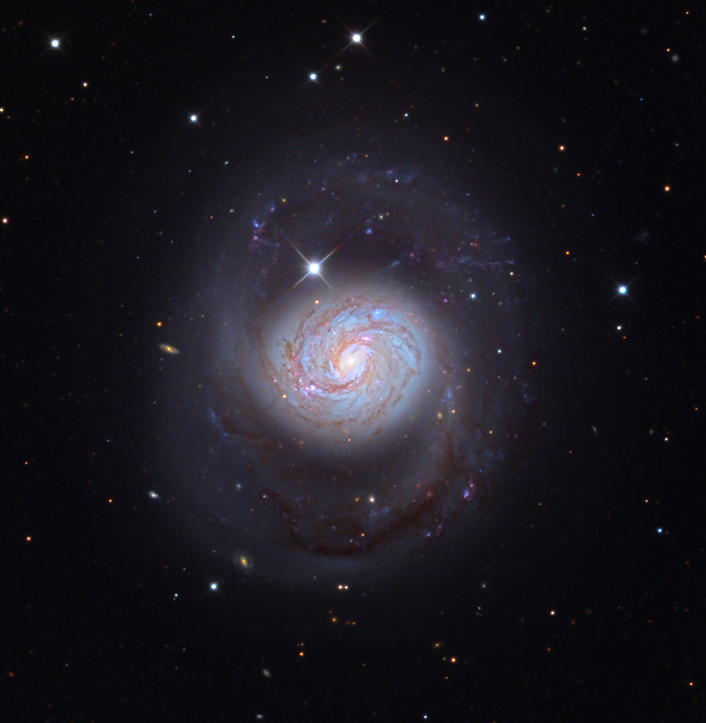 Deep exposures of Galaxies using the 0.8m Schulman Telescope at the Mount Lemmon SkyCenter Credit Line & Copyright Adam Block/Mount Lemmon SkyCenter/University of Arizona